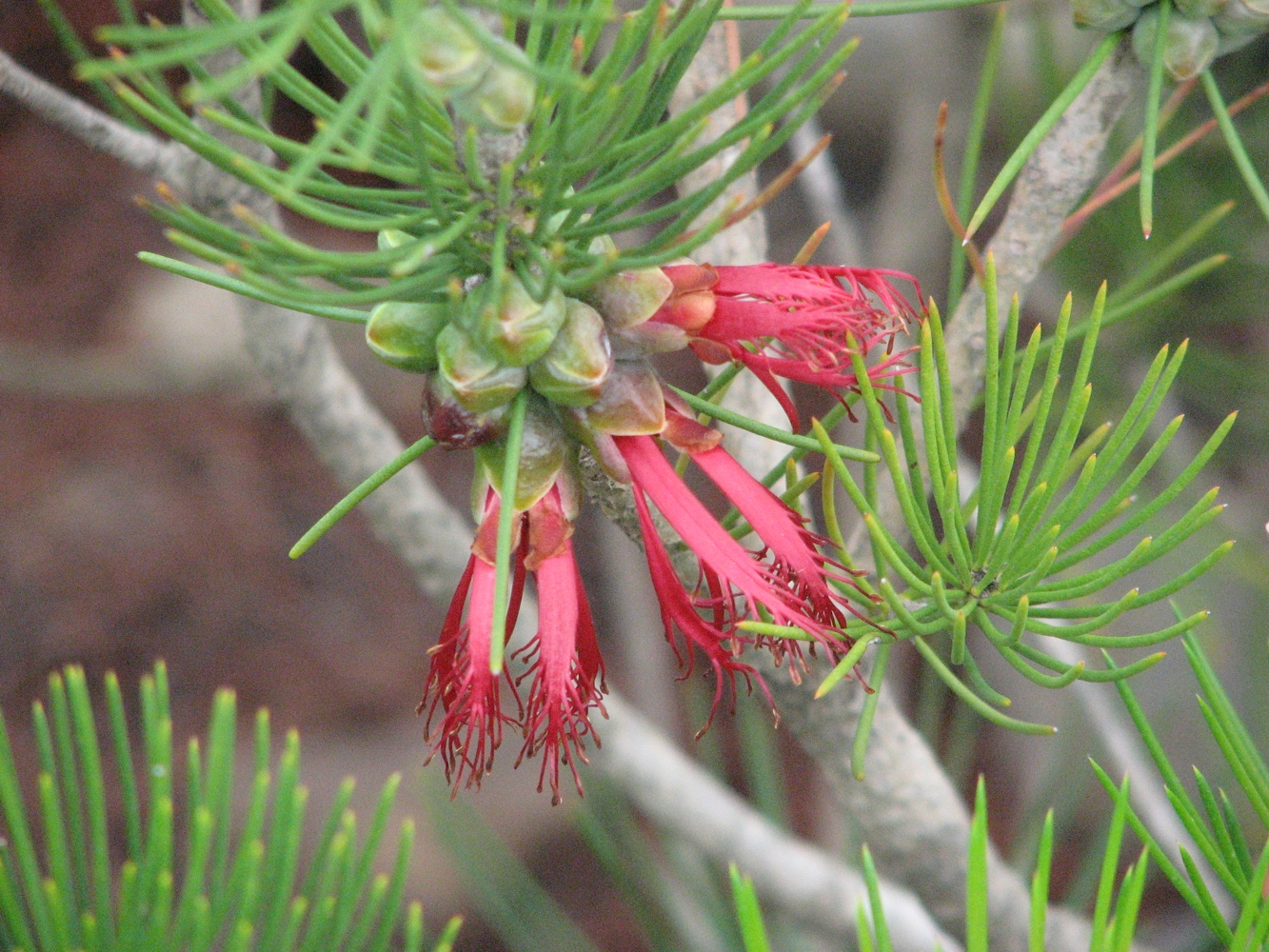 Calothamnus graniticus subsp. graniticus (cultivated, labelled) Royal Botanic Gardens Cranbourne, Australia